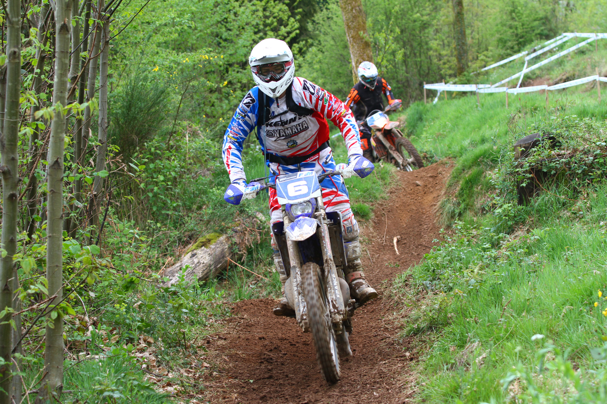 2 pilotes en liaison lors du championnat de France d'enduro 2014 à Uzerche